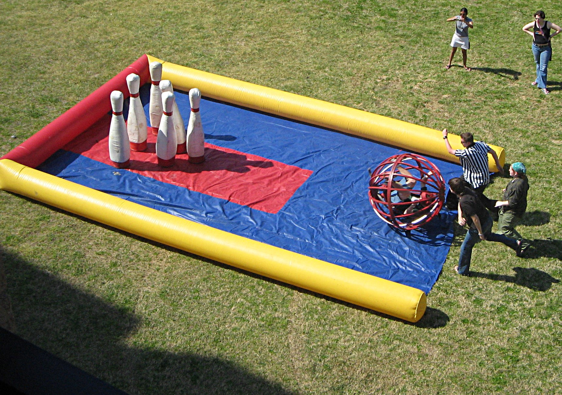 Human bowling in Denton, Texas, USA